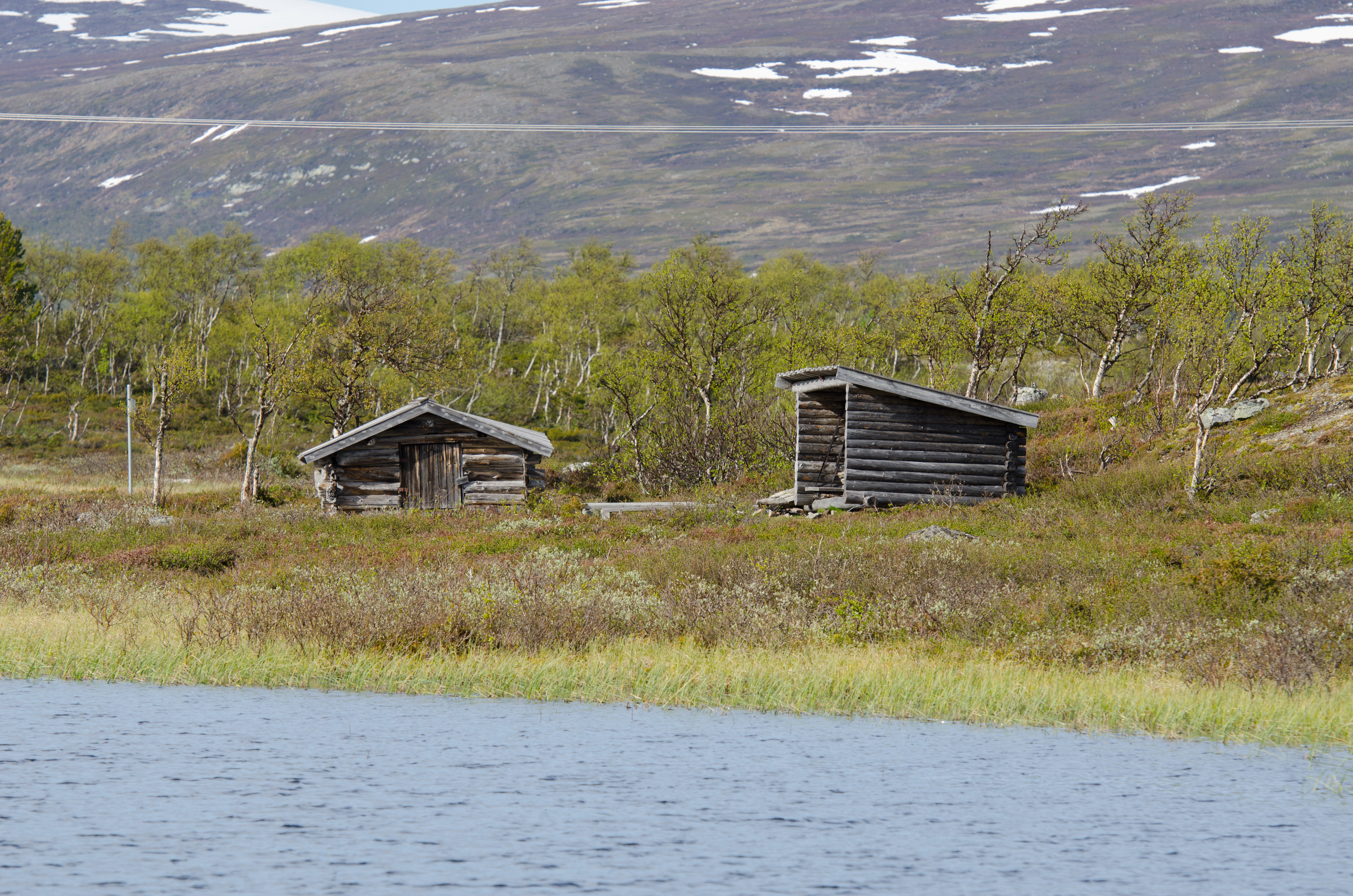 Lean-to in Torkilstöten, Ljungdalen, Bergs municipality, Jämtland County.